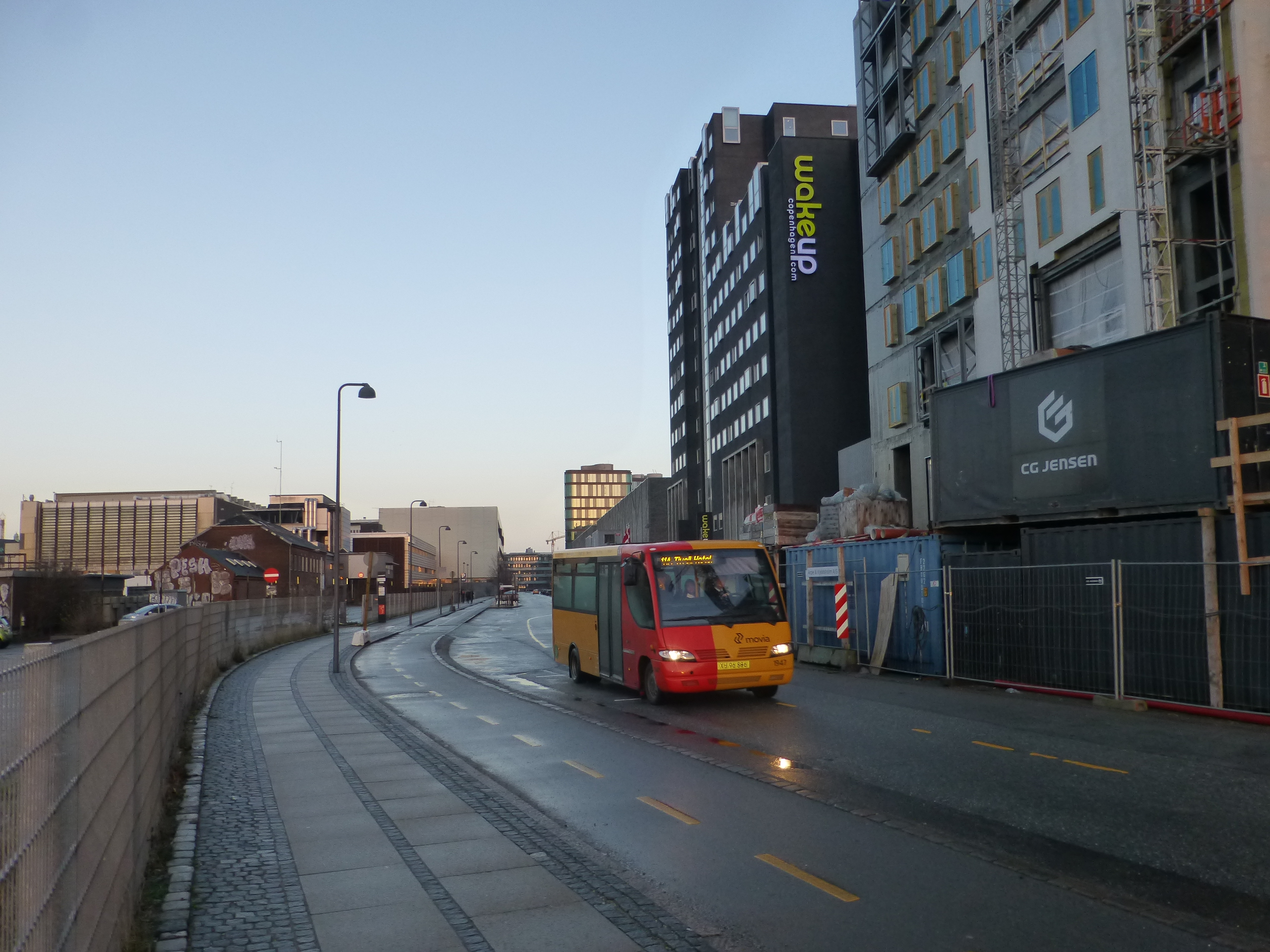 Movia bus line 11A on Carsten Niebuhrs Gade in Vesterbro in Copenhagen on the last day of the line.